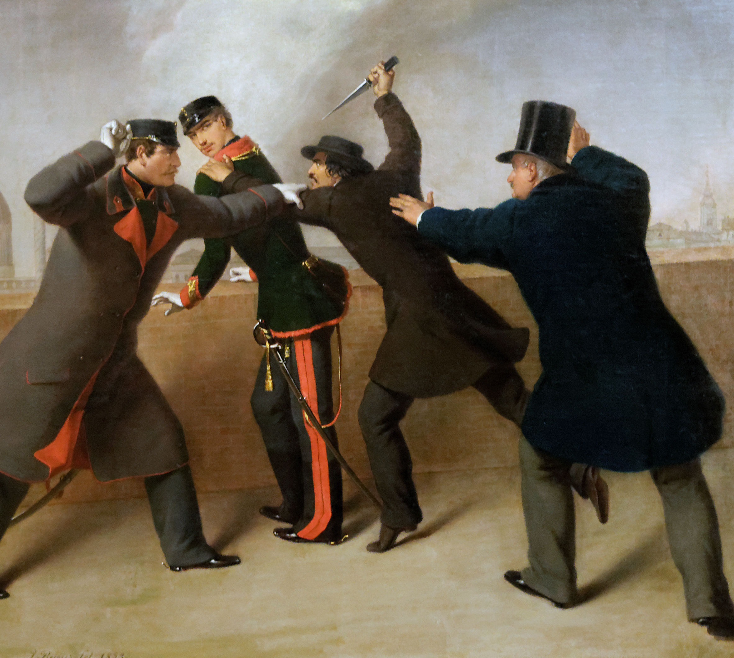 Oil painting by J. J. Reiner of the assassination attempt on Austrian Emperor Franz Joseph, 1853)